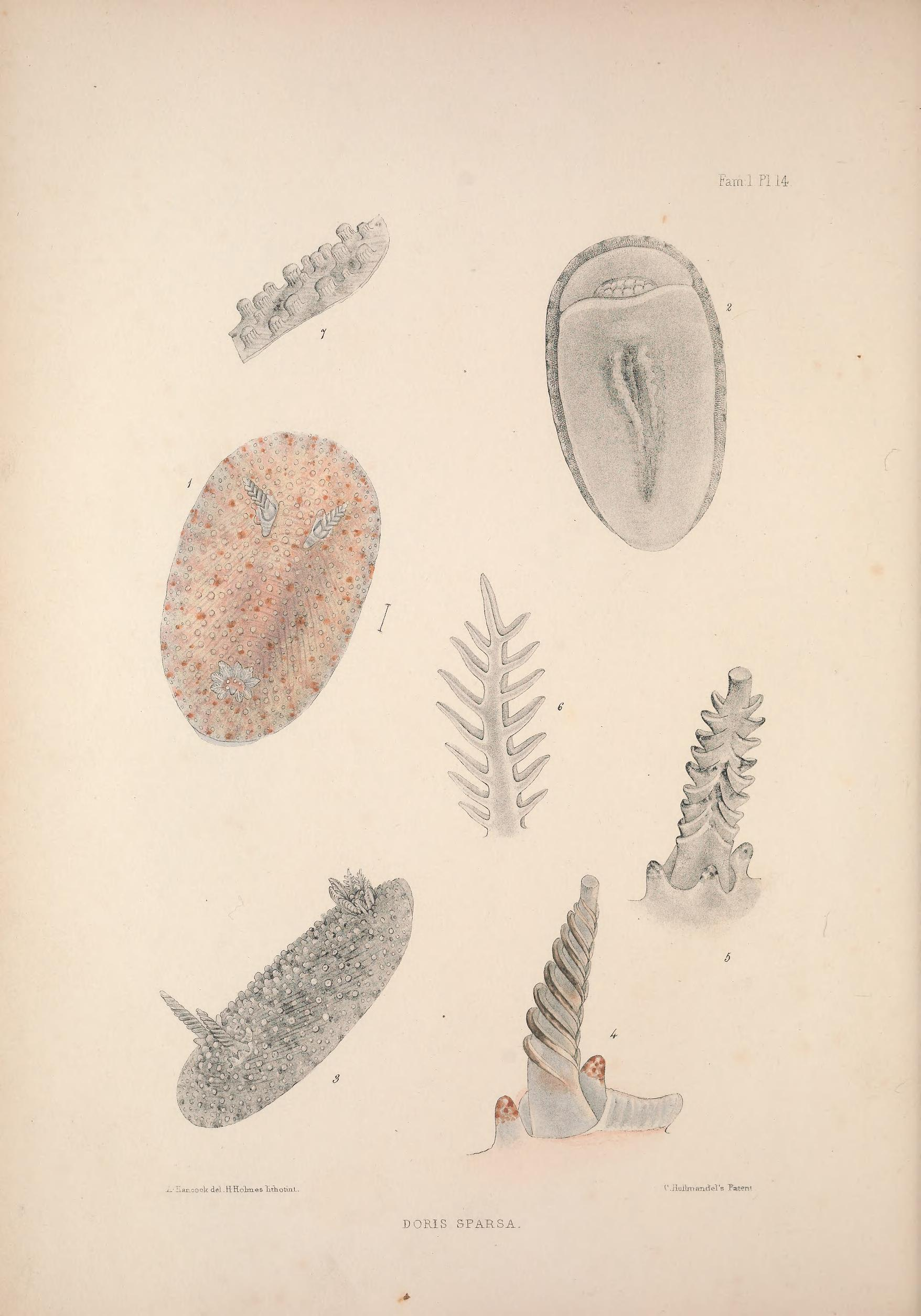 Alder J. & Hancock A. (1845-1855). A monograph of the British nudibranchiate Mollusca: with figures of all the species. The Ray Society, London. Published in 8 parts:Part 4 Fam. 1 Plate 14 [1848]. Doris sparsa (Alder & Hancock, 1846) synonym Onchidoris sparsa (Alder & Hancock, 1846) accepted name